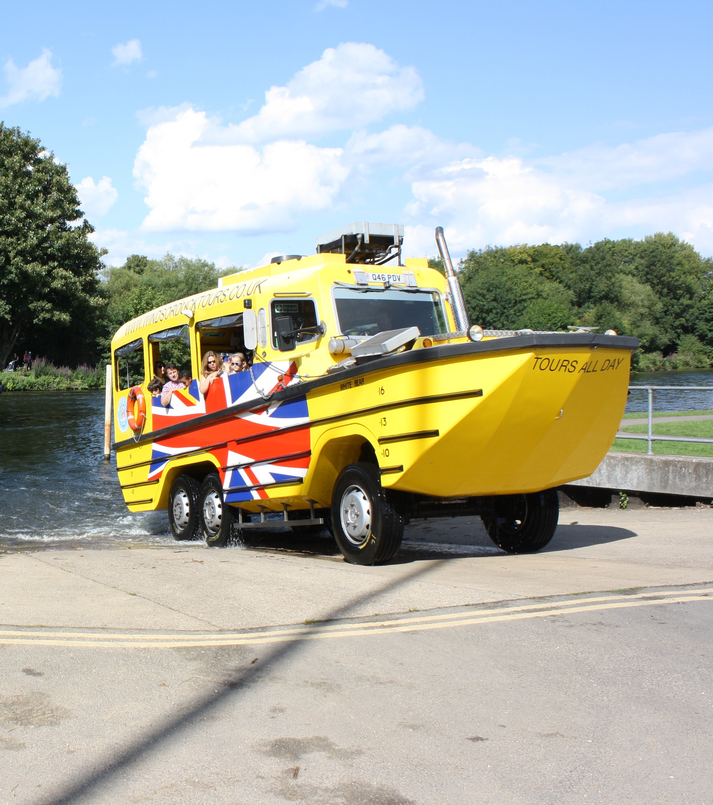 Windsor Duck Tour leaving the River Thames in Windsor